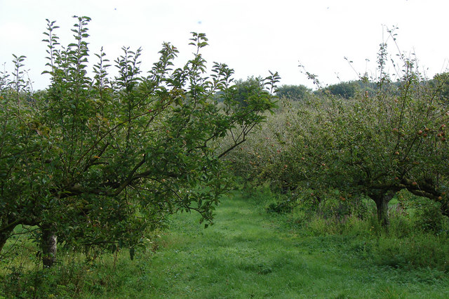 Apple Orchard, north of Flitcham Eating varieties of Laxton Fortune and Cox are grown - they are gathered by the public ('pick your own') but the estate also produces its own apple juice